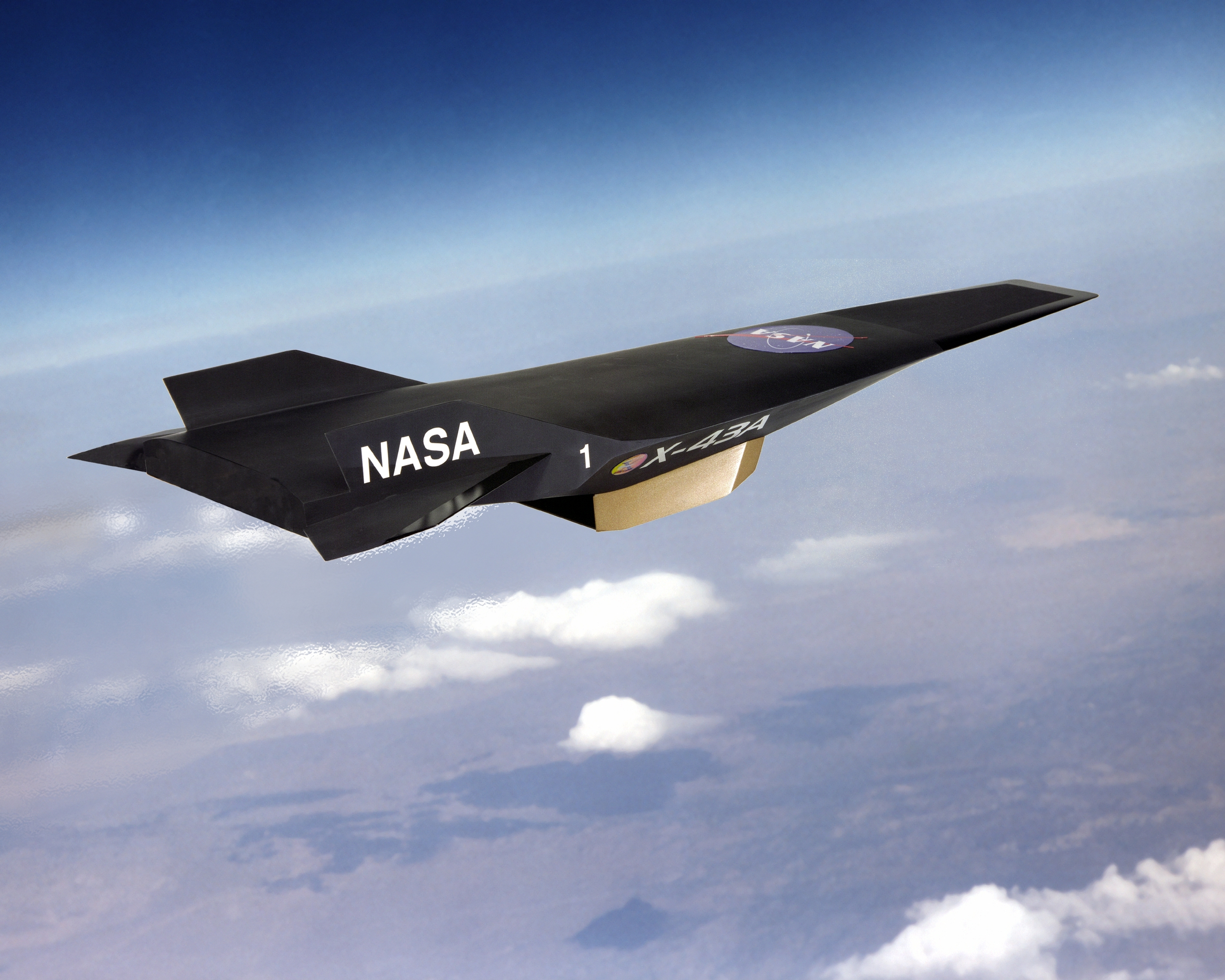 An artist's conception of the X-43A Hypersonic Experimental Vehicle, or "Hyper-X" in flight. The X-43A was developed to flight test a dual-mode ramjet/scramjet propulsion system at speeds from Mach 7 up to Mach 10 (7 to 10 times the speed of sound, which varies with temperature and altitude).